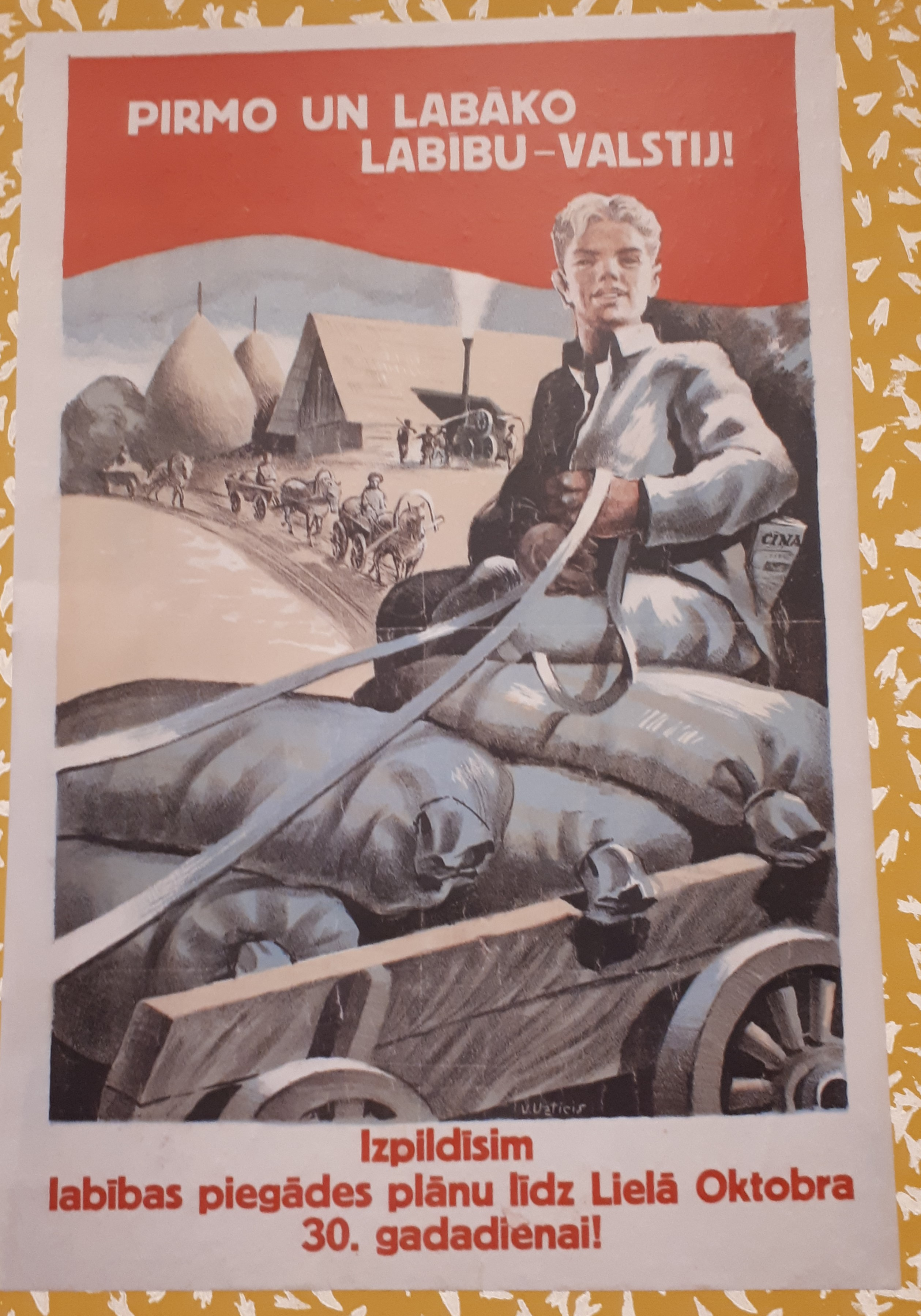 Poster of Soviet Latvia. National History Museum of Latvia in Riga